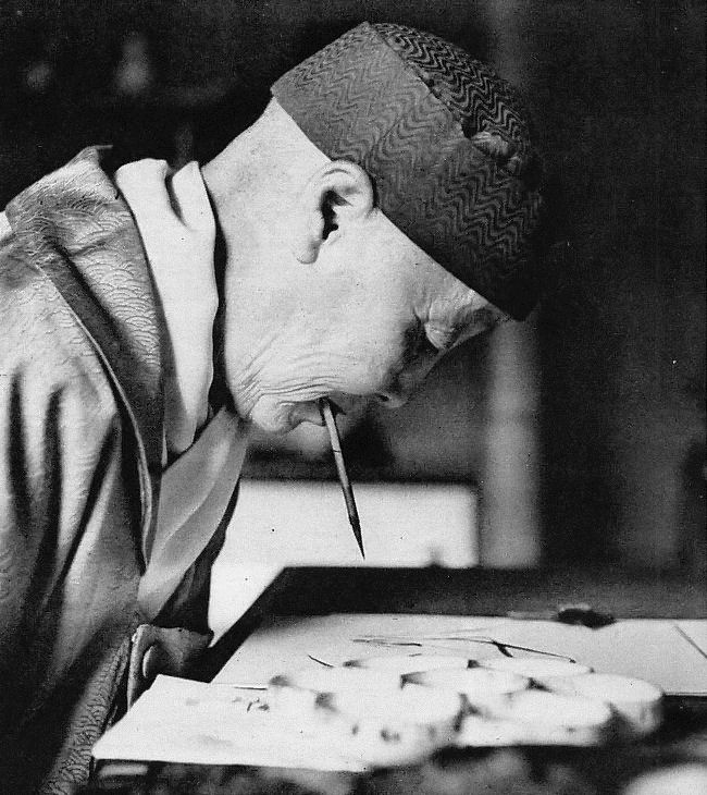 Junkyo Oishi